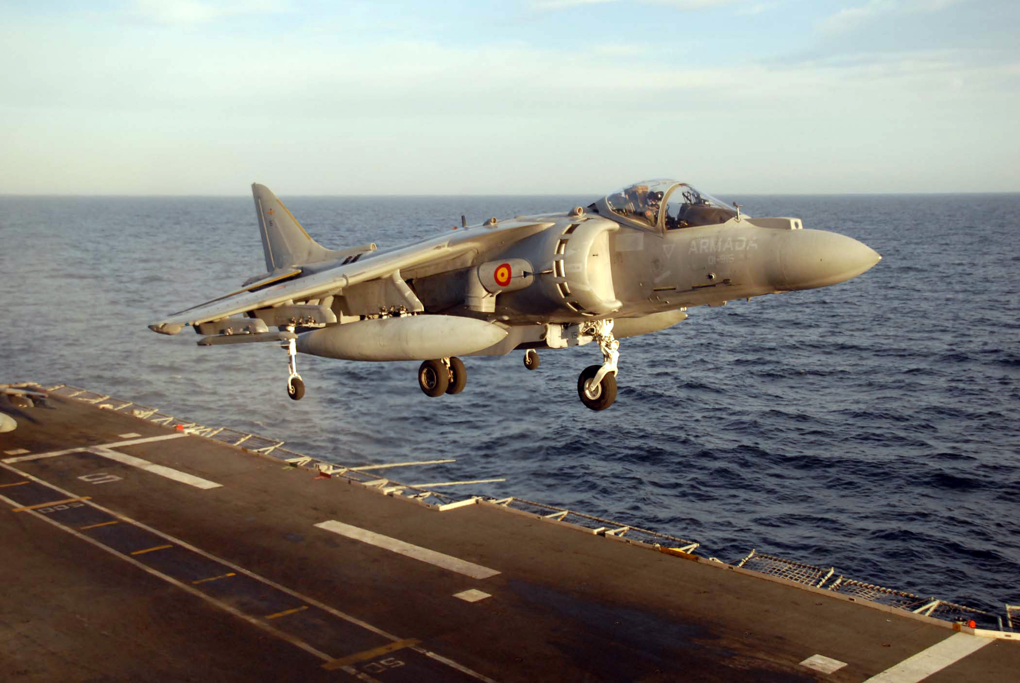 An AV-8B Harrier II from the Spanish aircraft carrier Principe de Asturias (R 11) prepares to land after a live fire exercise as part of a passing exercise with ships assigned to Standing NATO Maritime Group Two (SNMG-2). SNMG-2 was established as an immediate reaction force and as NATO’s maritime ready response force.